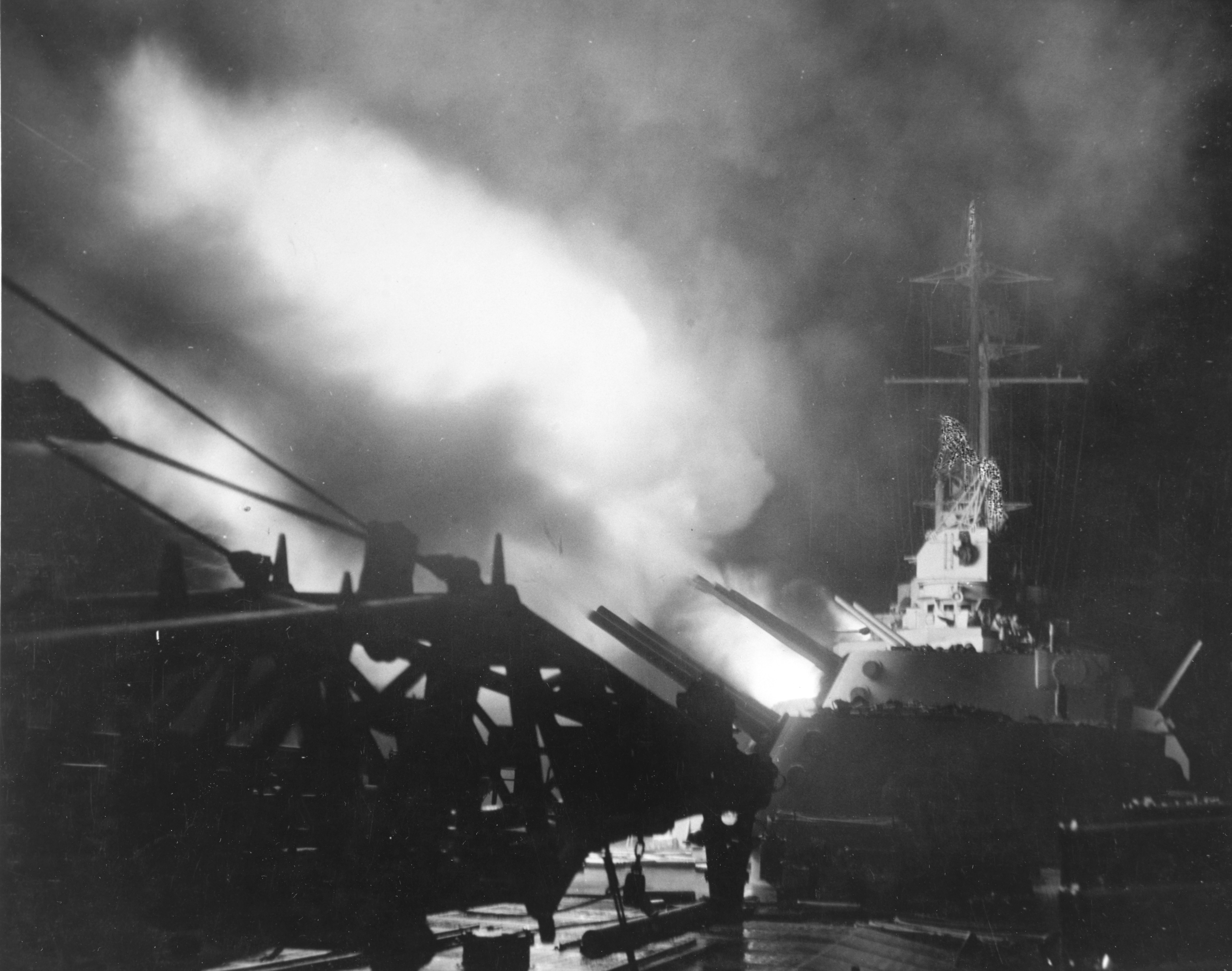 The after 6/47 gun turrets of the U.S. Navy light cruiser USS Columbia (CL-56) firing, during the night bombardment of Japanese facilities in the Shortlands that covered the landings on Bougainville.This photograph has been rather crudely retouched to eliminate radar antennas on gun directors and masthead.